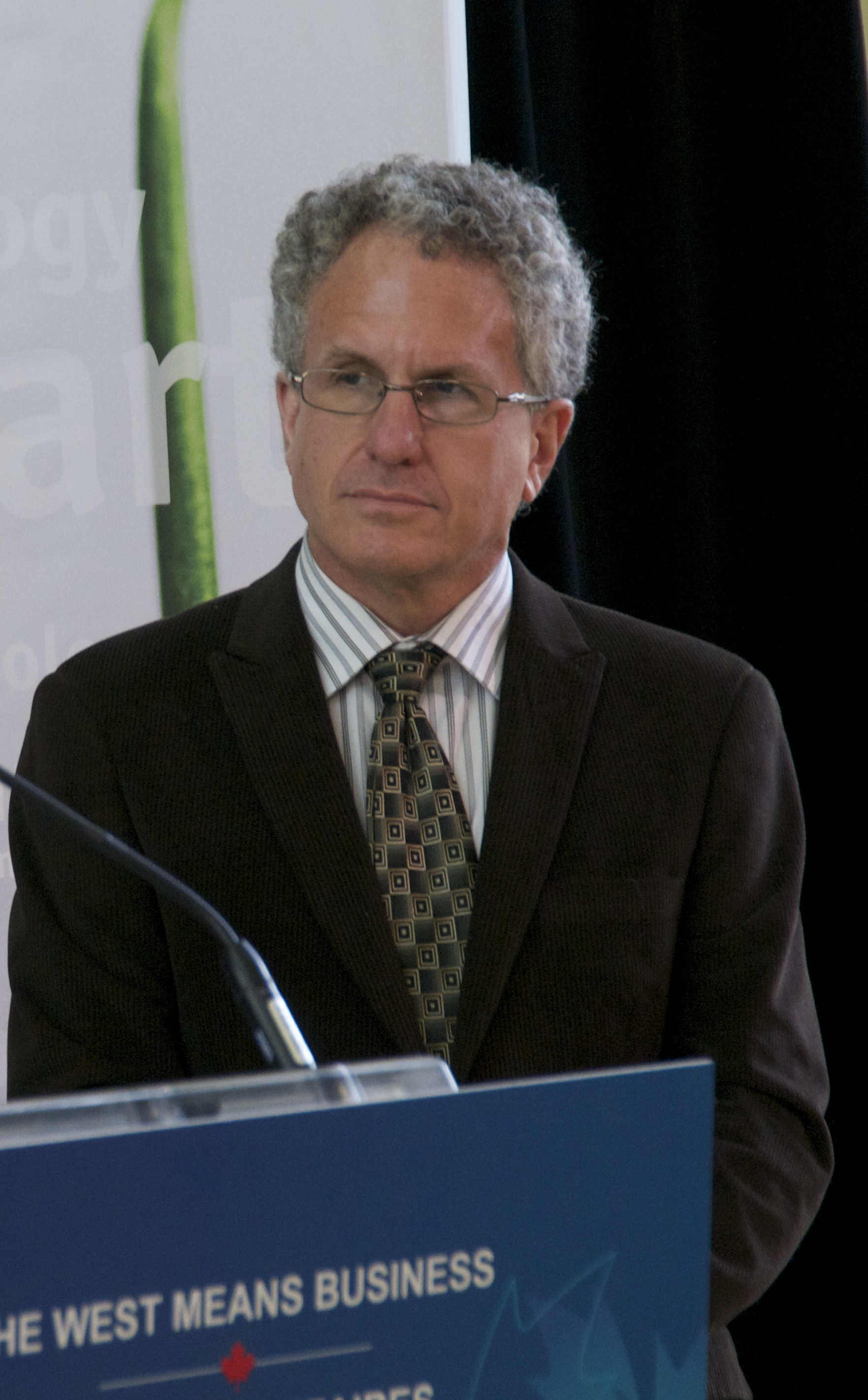 Jonathan Schaeffer, Dean of Science, University of Alberta, announce funding for ultra HR scanning tunnelling microscope.